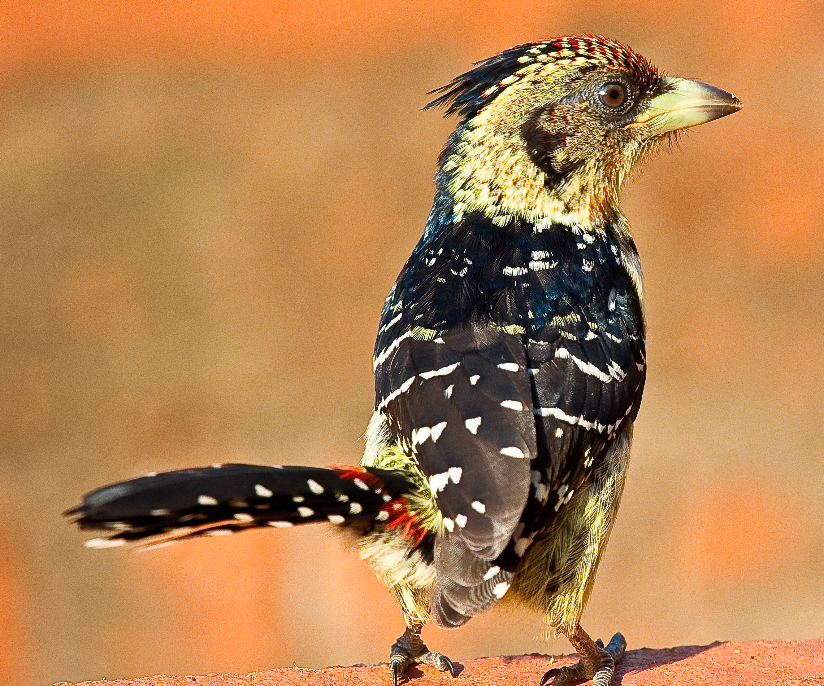 Crested Barbet Trachyphonus vaillantii